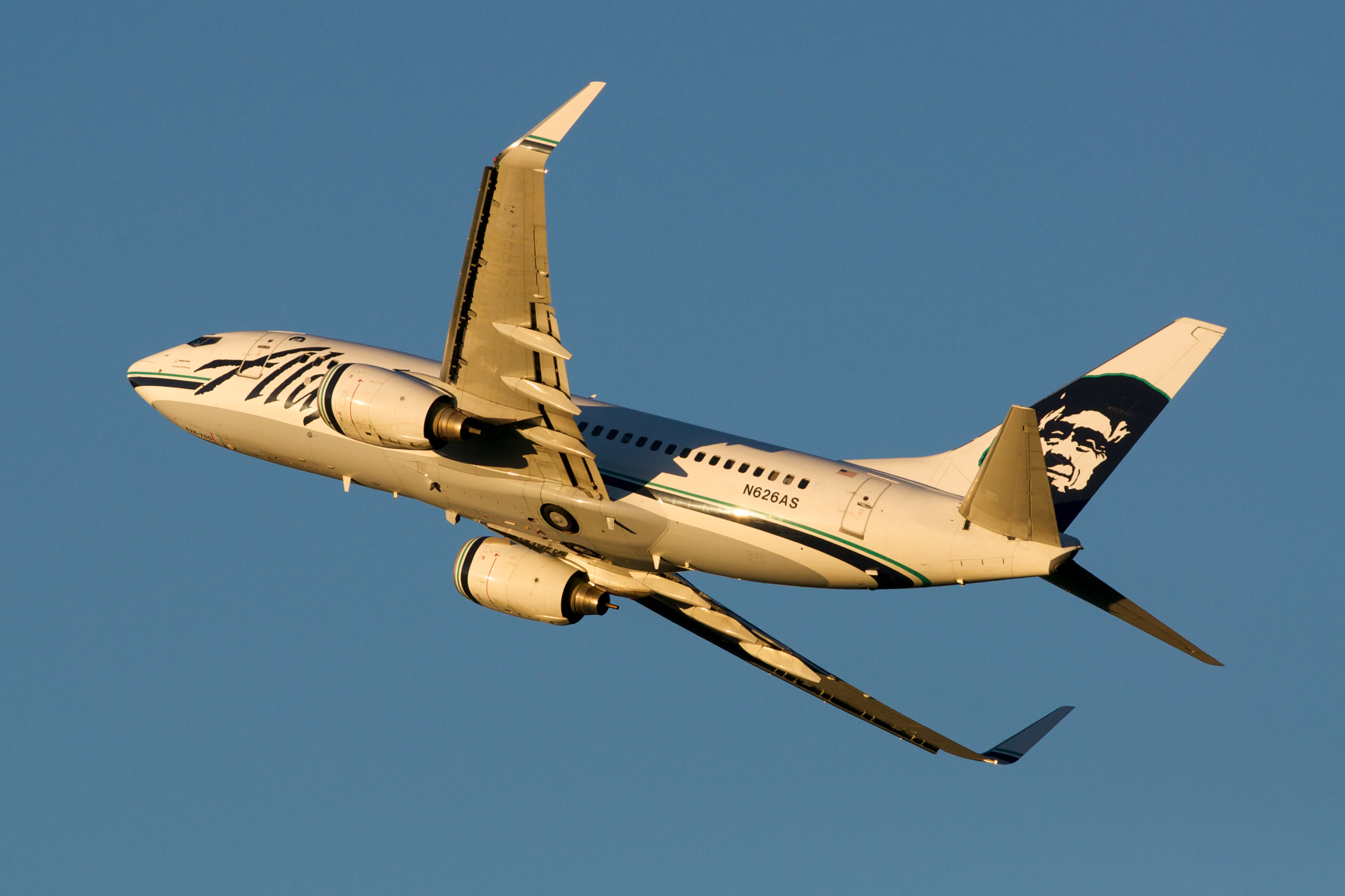 Alaska Airlines Boeing 737-700 N626AS blasts off from Burbank Bob Hope Airport.